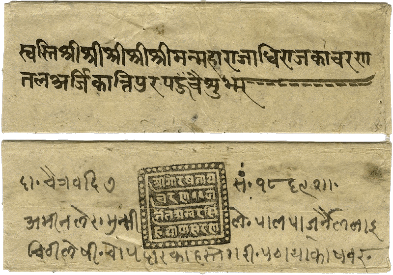 Cover of the letter signed by seal of General Amar Singh Thapa sent to King Girvanyuddha Bikram Shah; seal contains variant spelling of Amar as Ambar